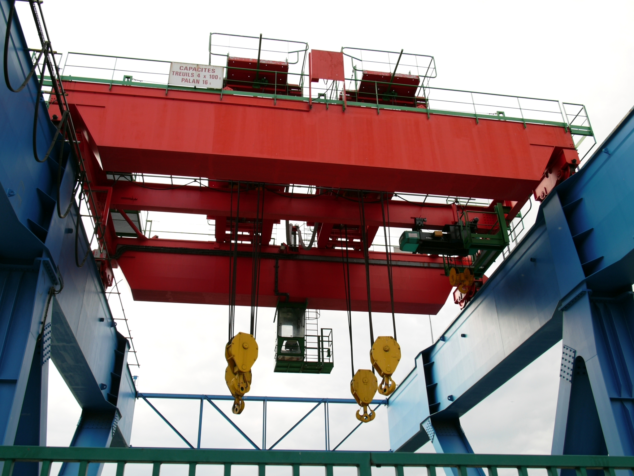 Overhead crane